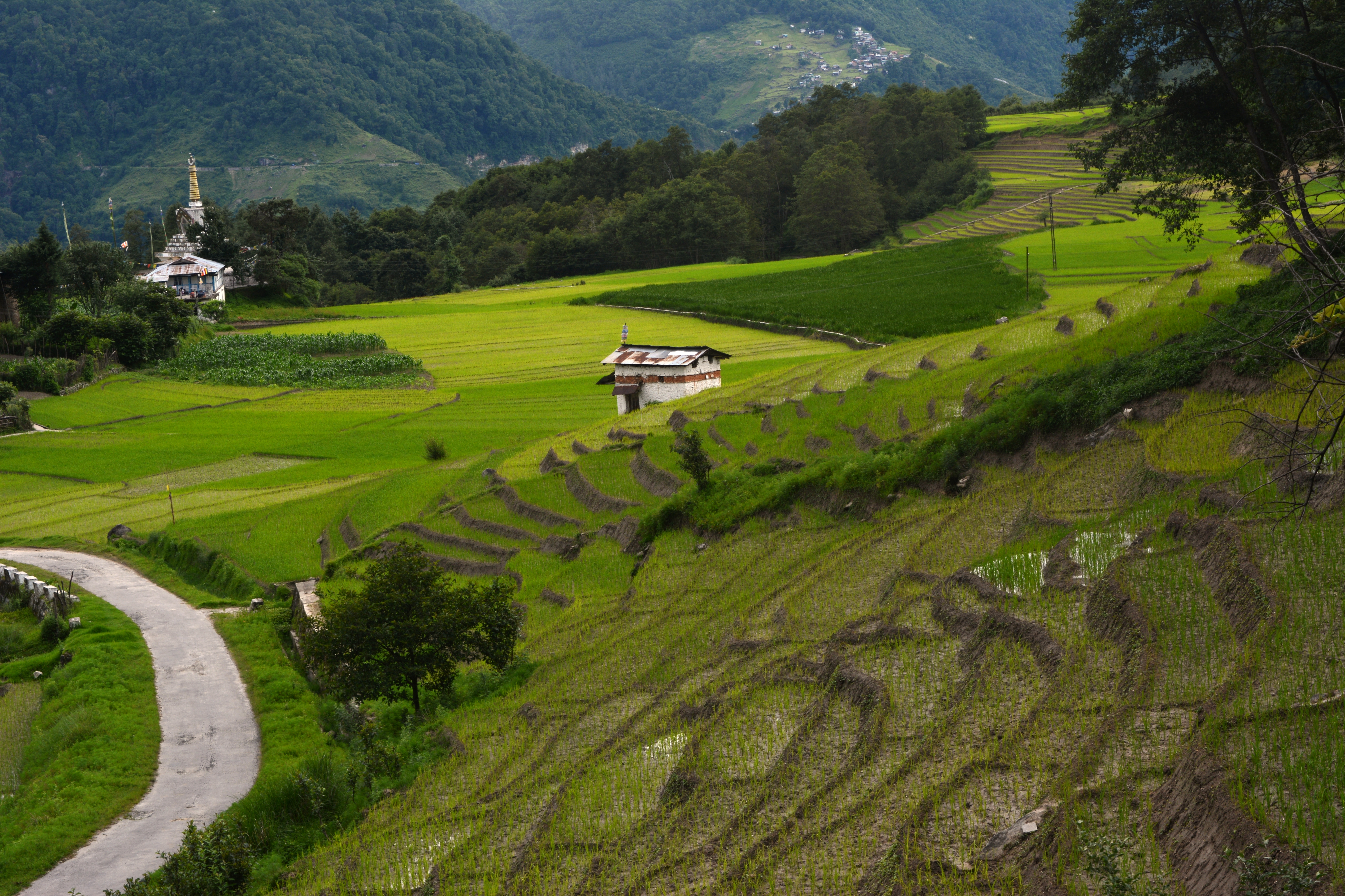 Ziro in Arunachal Pradesh is a lone plateau hidden between tall mountains. This is one of the only place where paddy-pisciculture is found in India (literally fishes in the irrigated waters). Home to Apatani tribals, the rich culture is preserved still in Ziro.